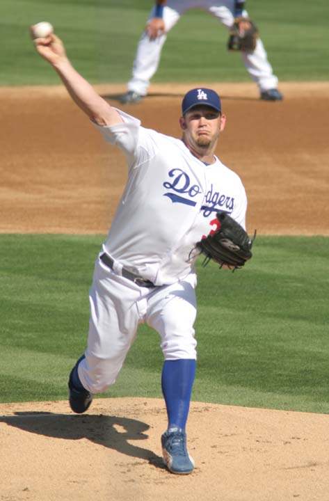 Dodgers pitcher Brad Penny during spring training action in Arizona, 2008. Photo by Craig Y. Fujii